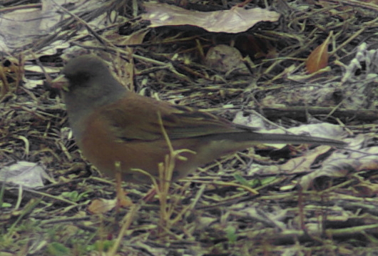 Pink-sided Junco (a subspecies of the Dark-eyed Junco), Junco hyemalis mearnsi, Española, New Mexico.